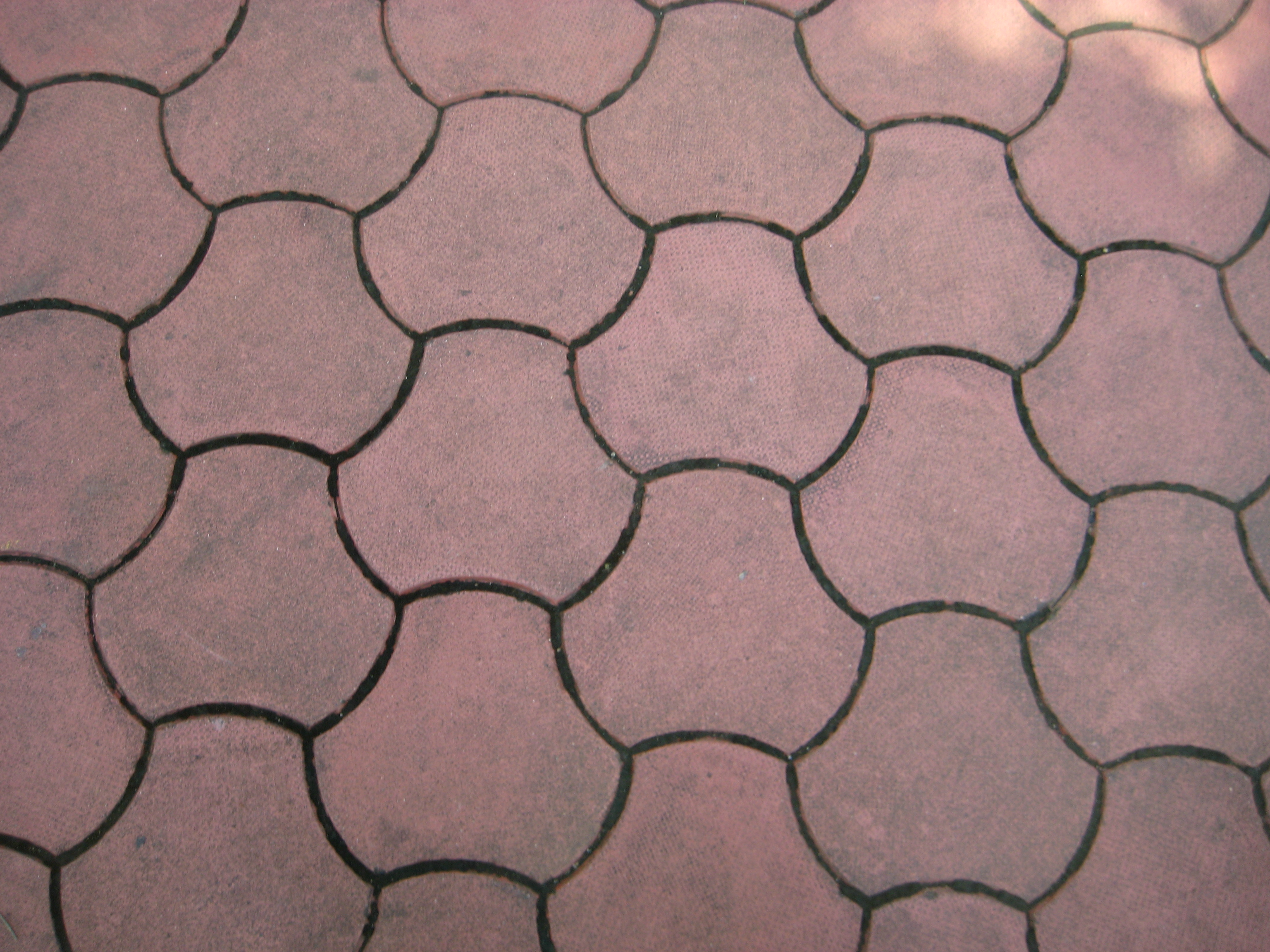 Floor Tiles